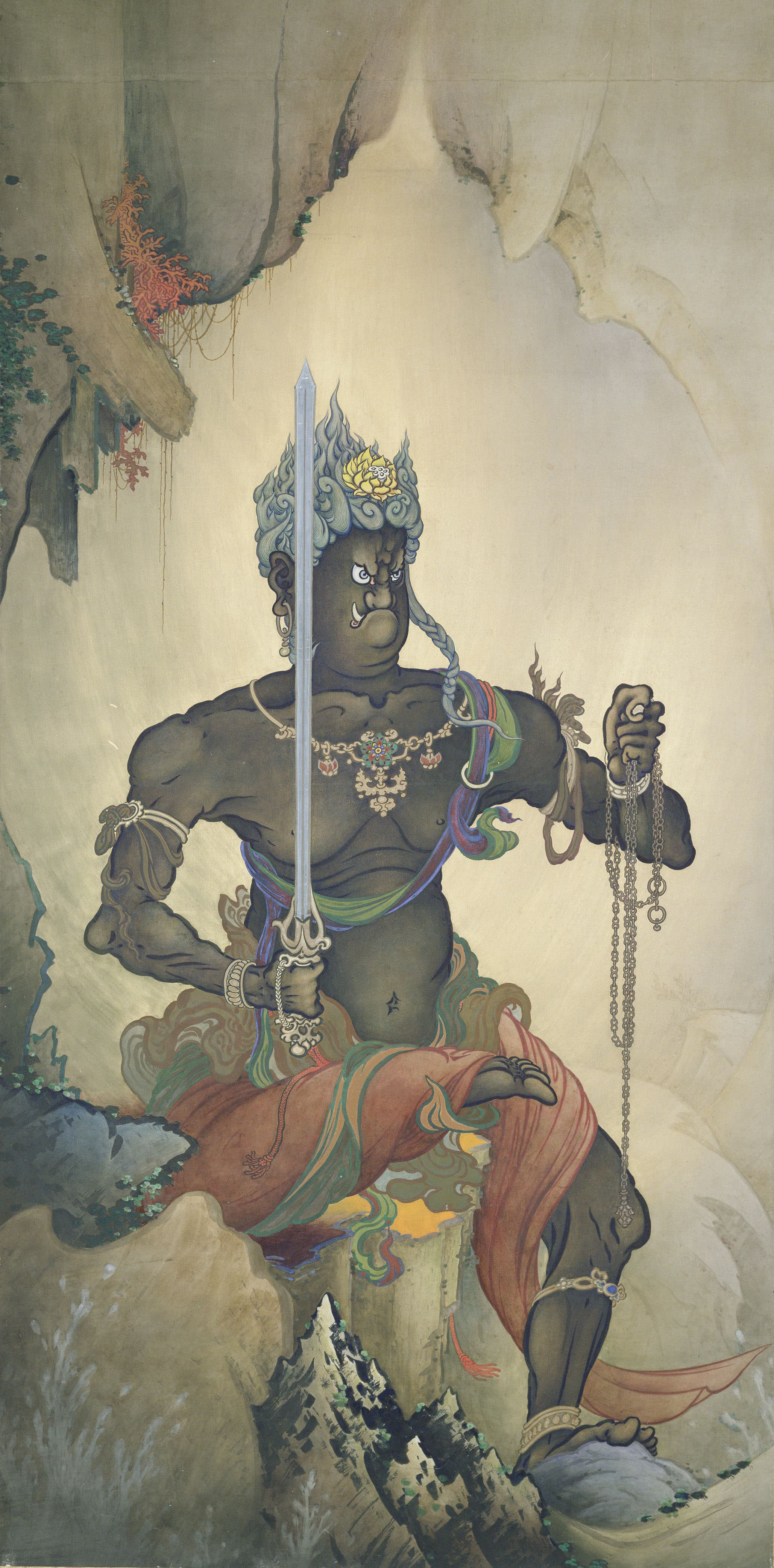 Fudo Myoo, by Kano Hogai, University Art Museum, Tokyo University of the Arts, Japan